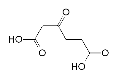 Chemical structure of maleylacetic acid